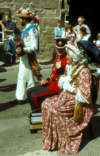 King and Queen The traditional figures accompany the local morrismen on their tour of the village.